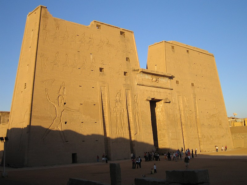 The front of the Edfu Temple in Egypt, on the Nile. Photo taken in December 2004 by Ian Sewell.